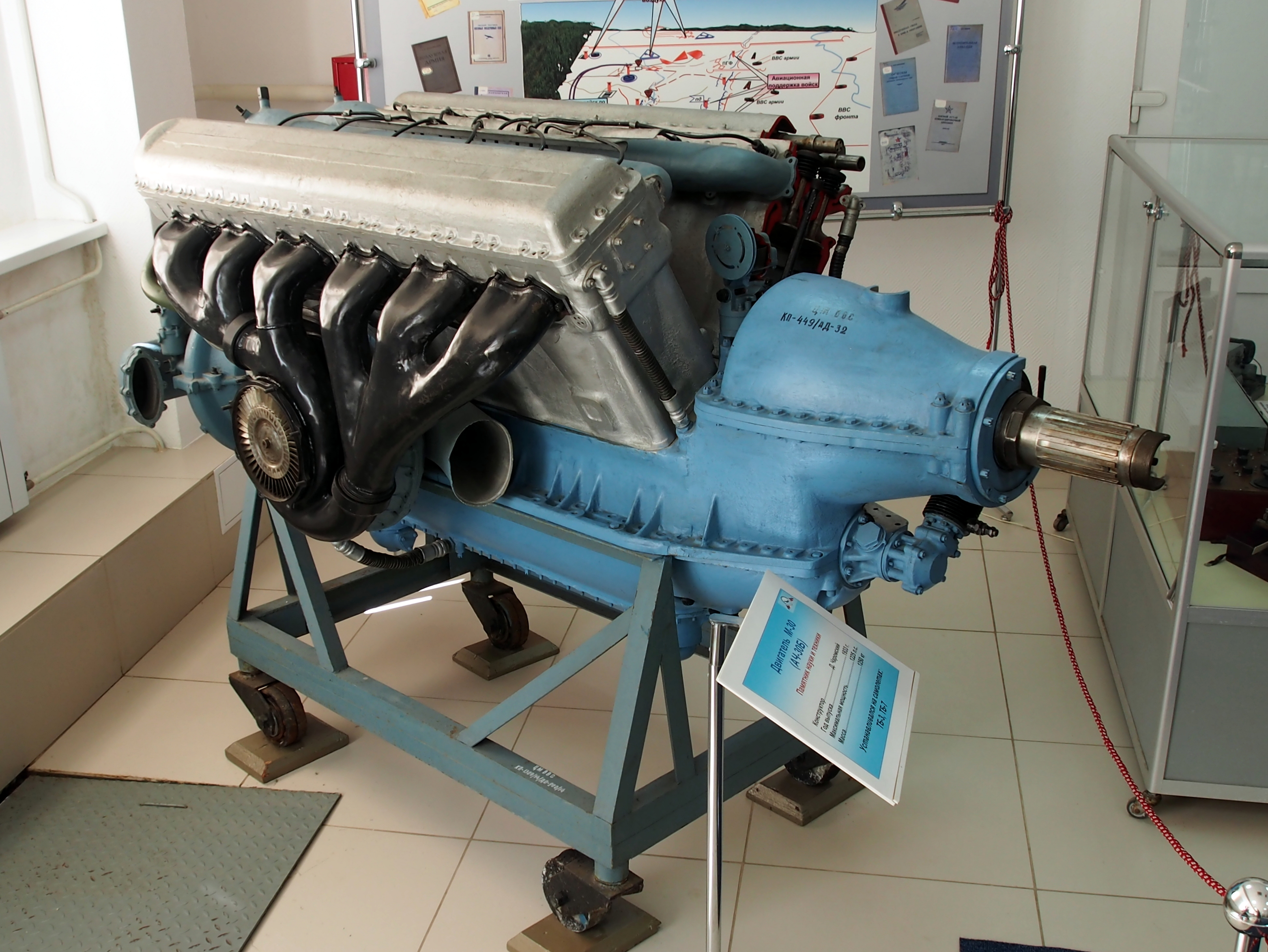 Charomskiy ACh-30 diesel engine at the Central Russian Air Force museum, Monino